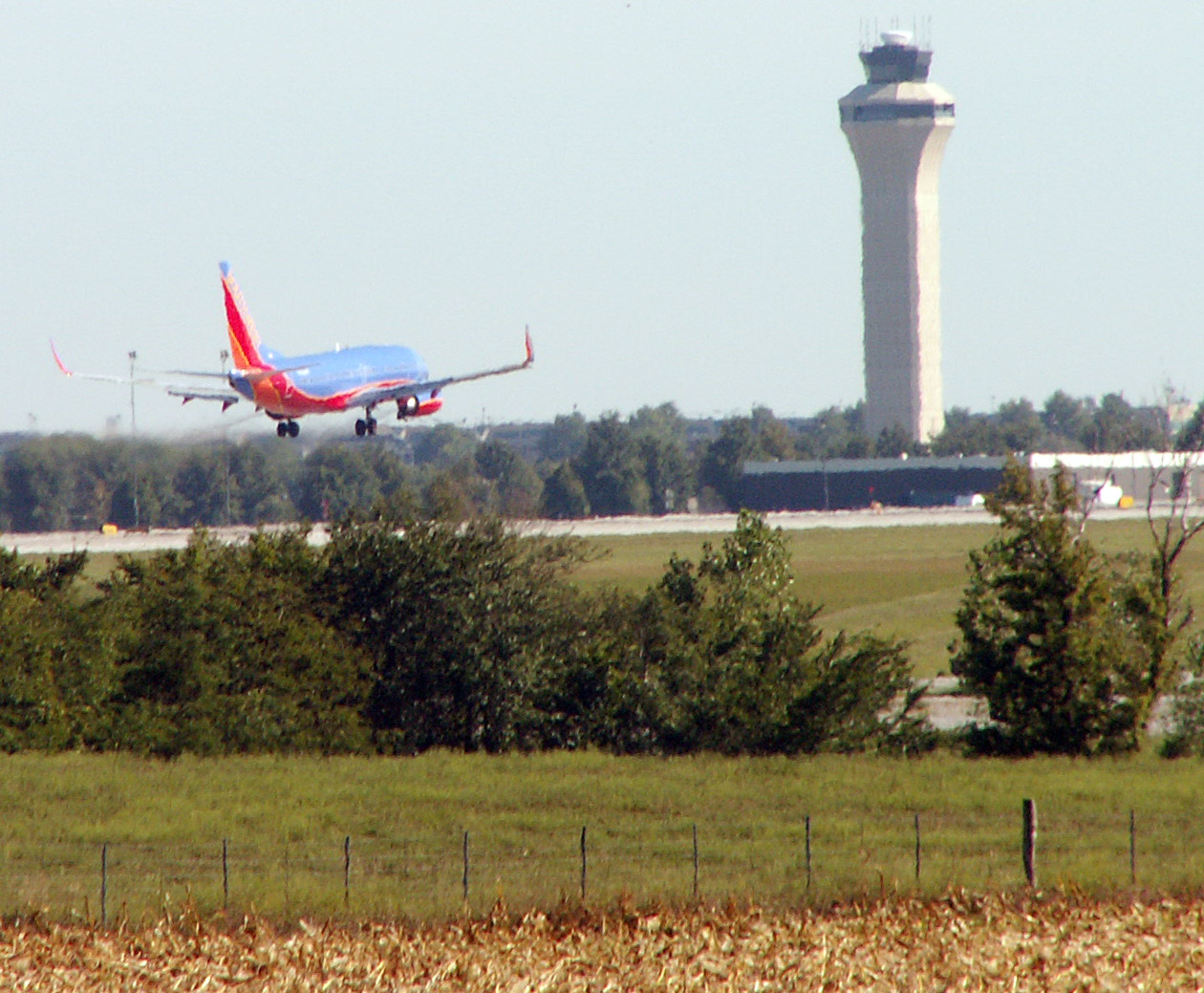 A Southwest Plane crossing a field to land at Kansas City International Airport. Photo by poster in September 2007.